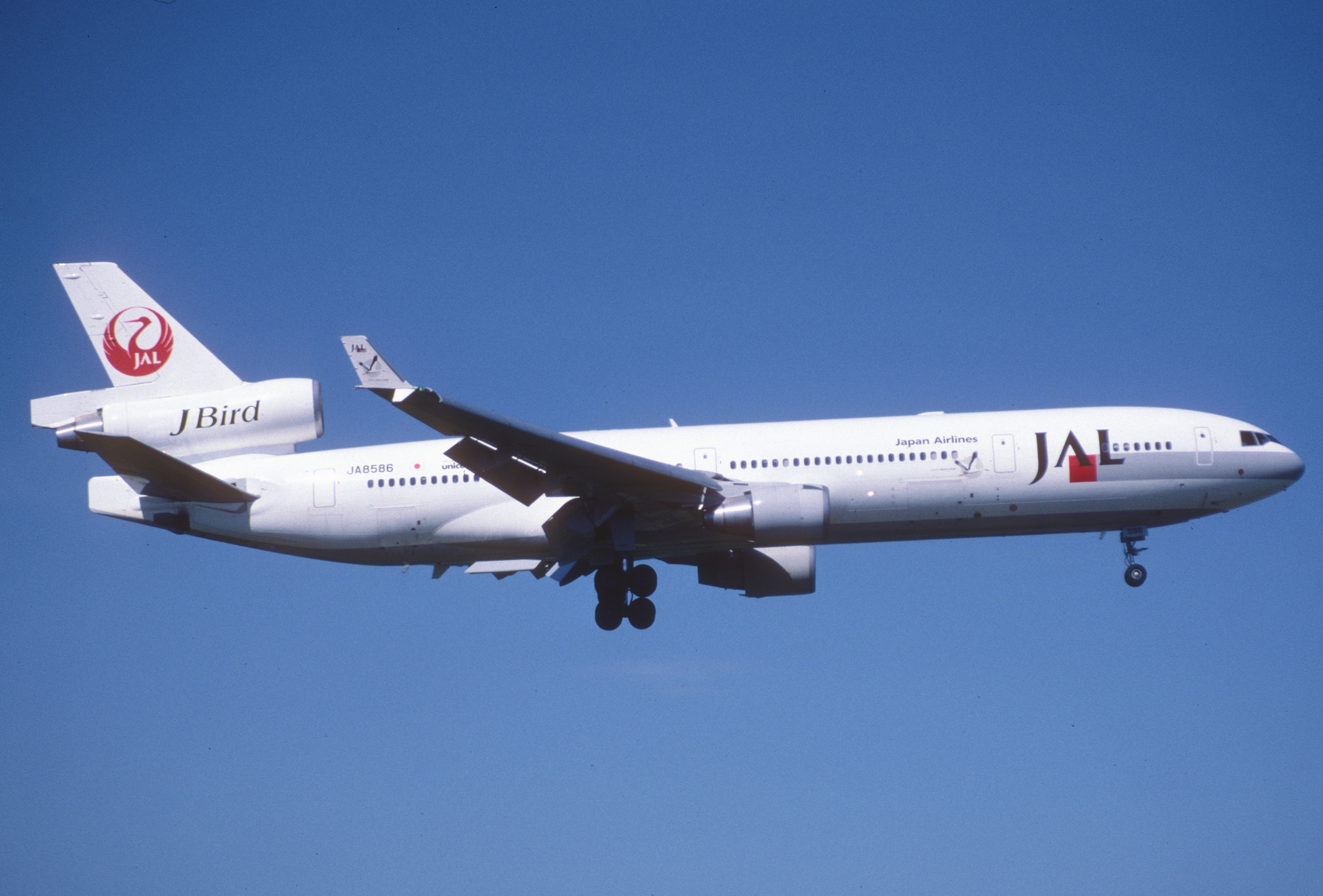 134ao - JAL Japan Airlines MD-11; JA8586@ZRH;23.06.2001